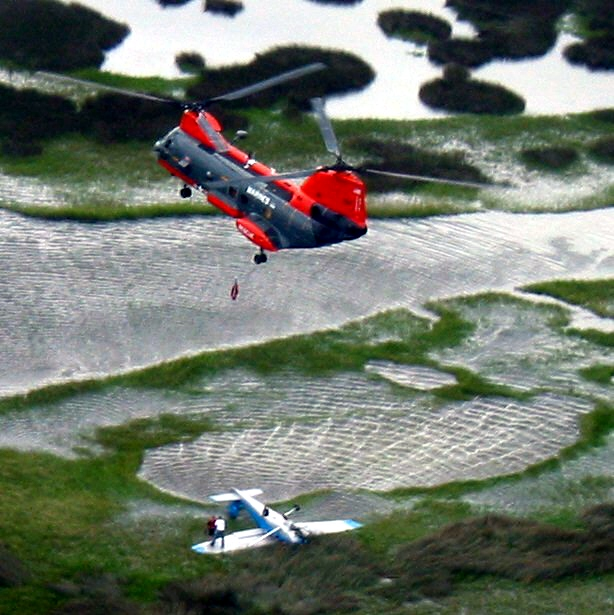 A U.S. Marine Corps Boeing Vertol HH-46E Sea Knight of Marine Transport Squadron VMR-1 "Roadrunners" rescues the crew of a crashed civil Cessna aircraft.